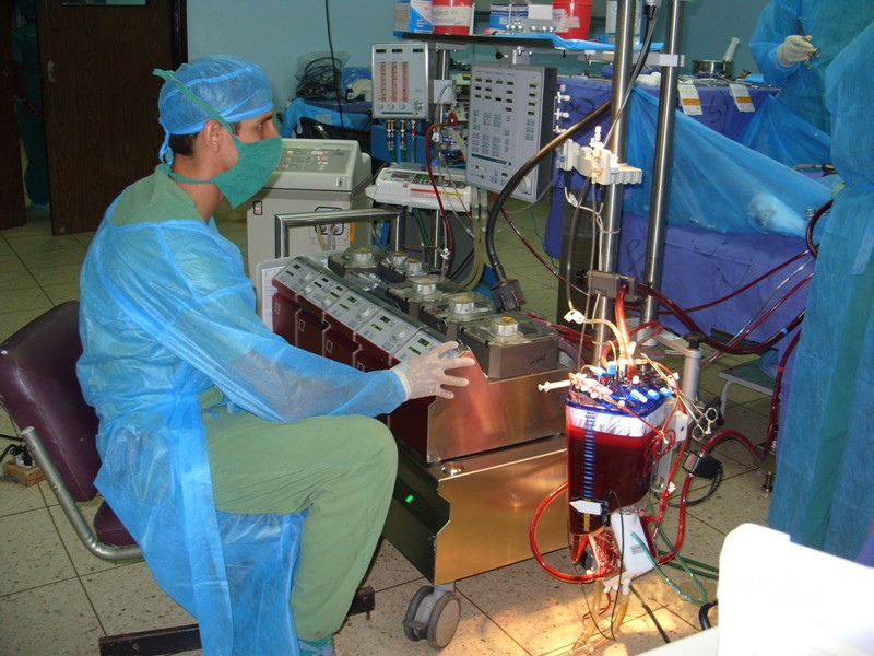 A perfusionist working with heart lung machine